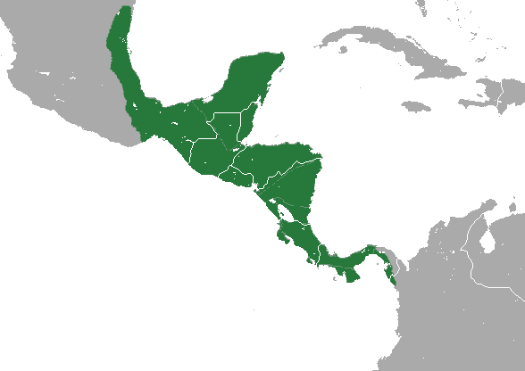 Geoffroy's Spider Monkey (Ateles geoffroyi) range